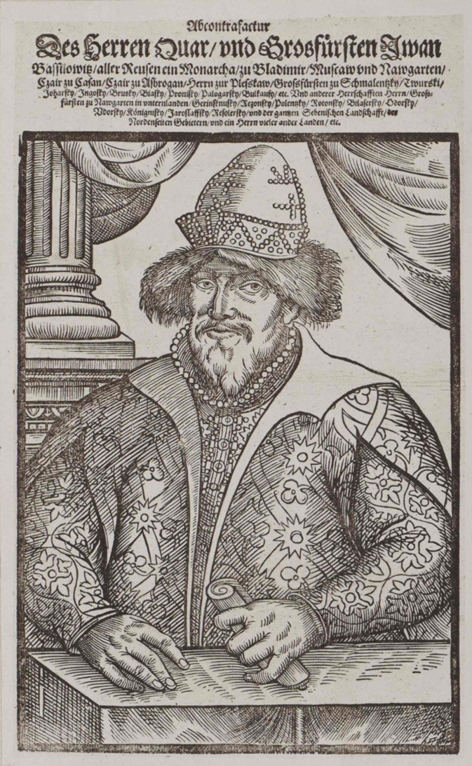 Ivan IV Vasilevich (Ivan the Terrible) (1530-1584)